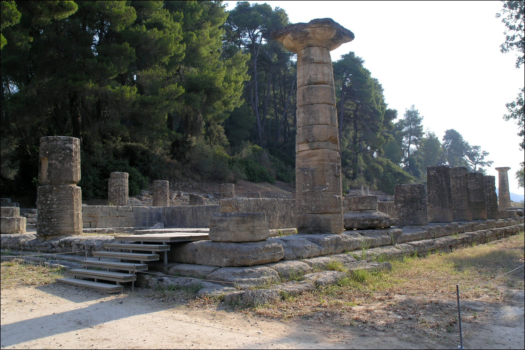 Olympia, Greek